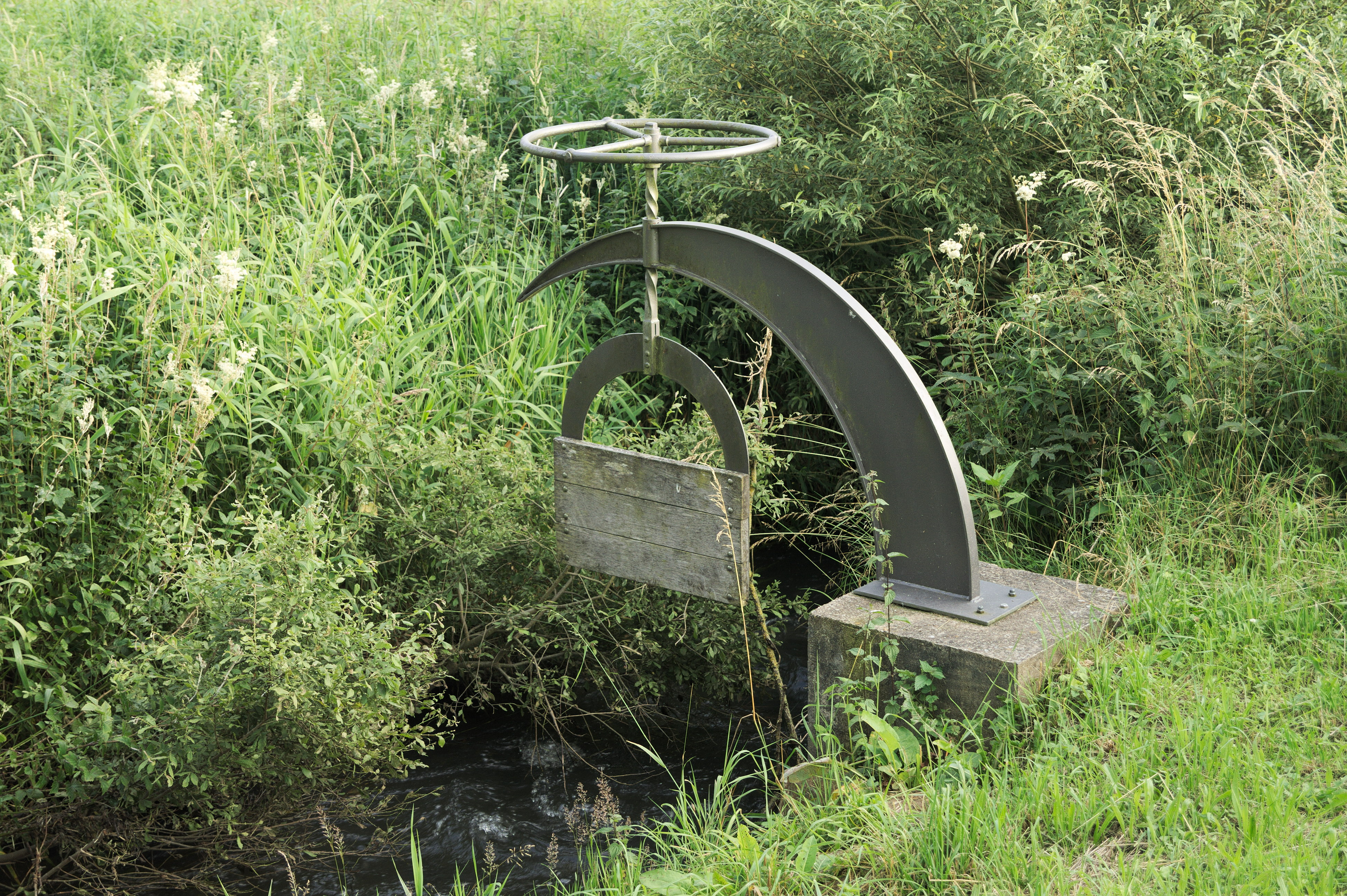 Symbolized weir as a symbol for historic measures of meadow watering. Part of the sculpture park of Steinebach. The works are inspired by local historical facts and sources. Steinebach an der Wied municipality, Westerwald, Germany.